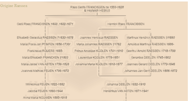 afbeelding 5 Raessens